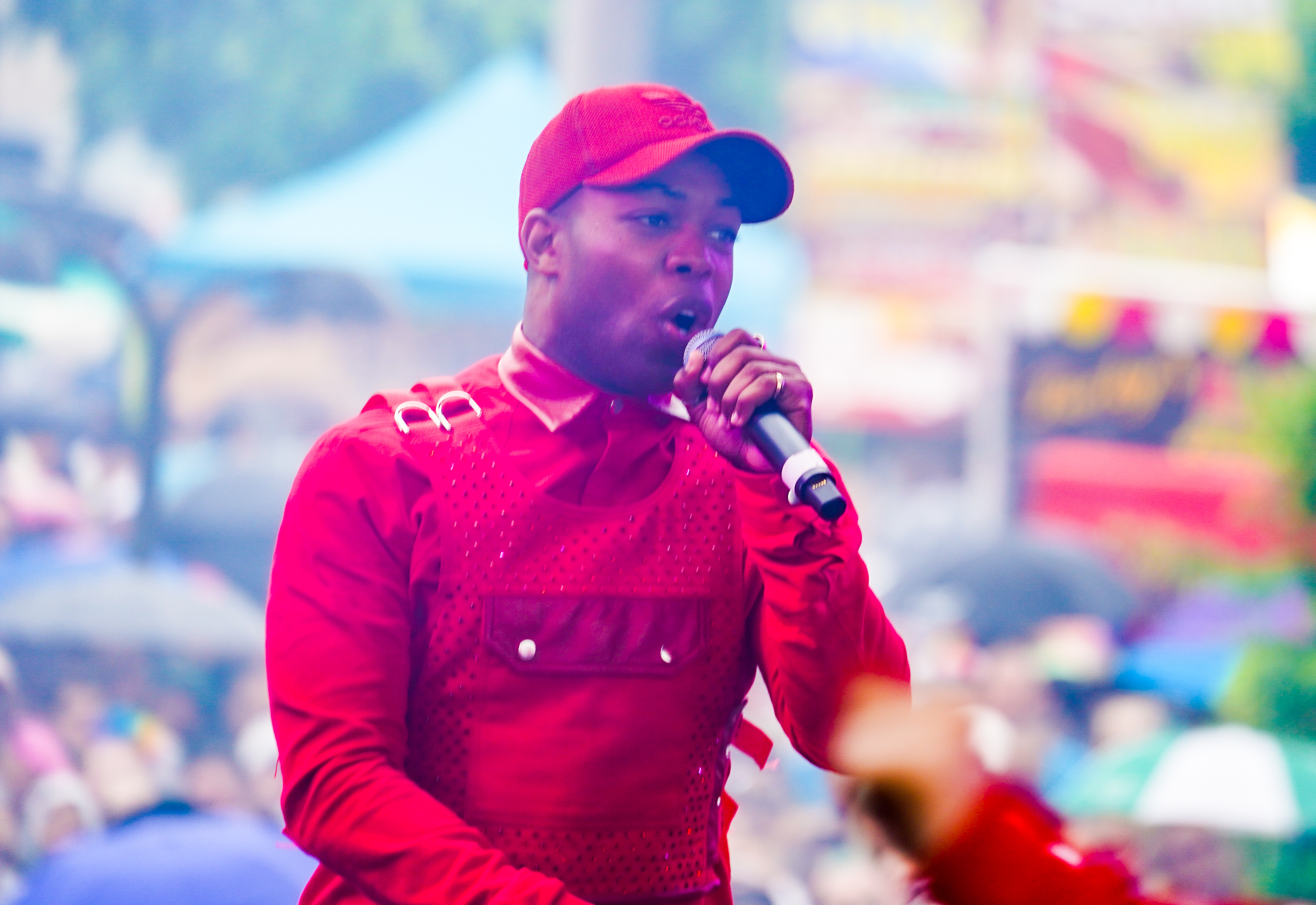 With headliners Marshmello Zara Larsson Todrick Hall Shea Diamond Calum Scott Nina West Big Dipper Pride2019 #CapitalPrideDC #CapitalTransPride #ShhhOUT #PastPresentAndProud